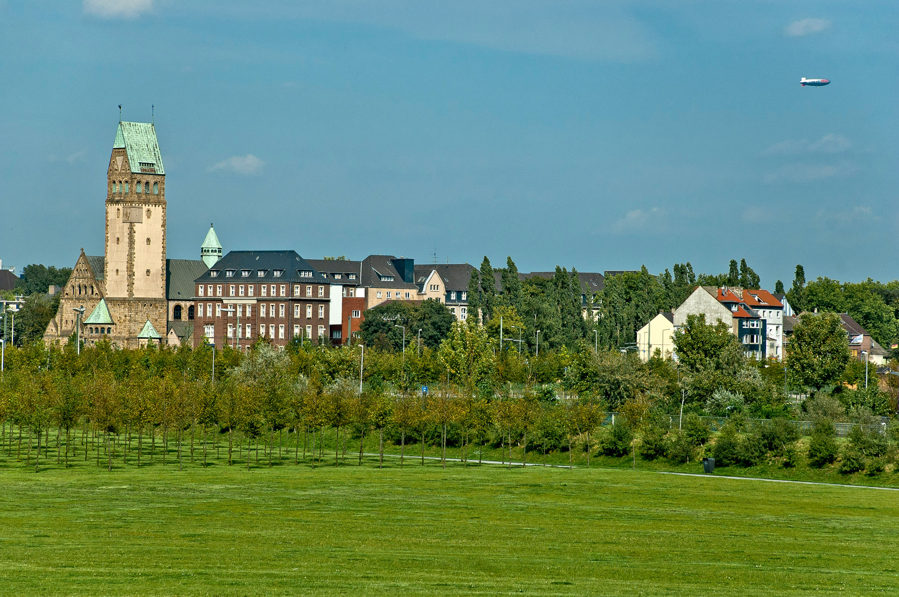 St. Boniface Catholic parish Church. Wanheimer Str 161, Hochfeld, Duisburg